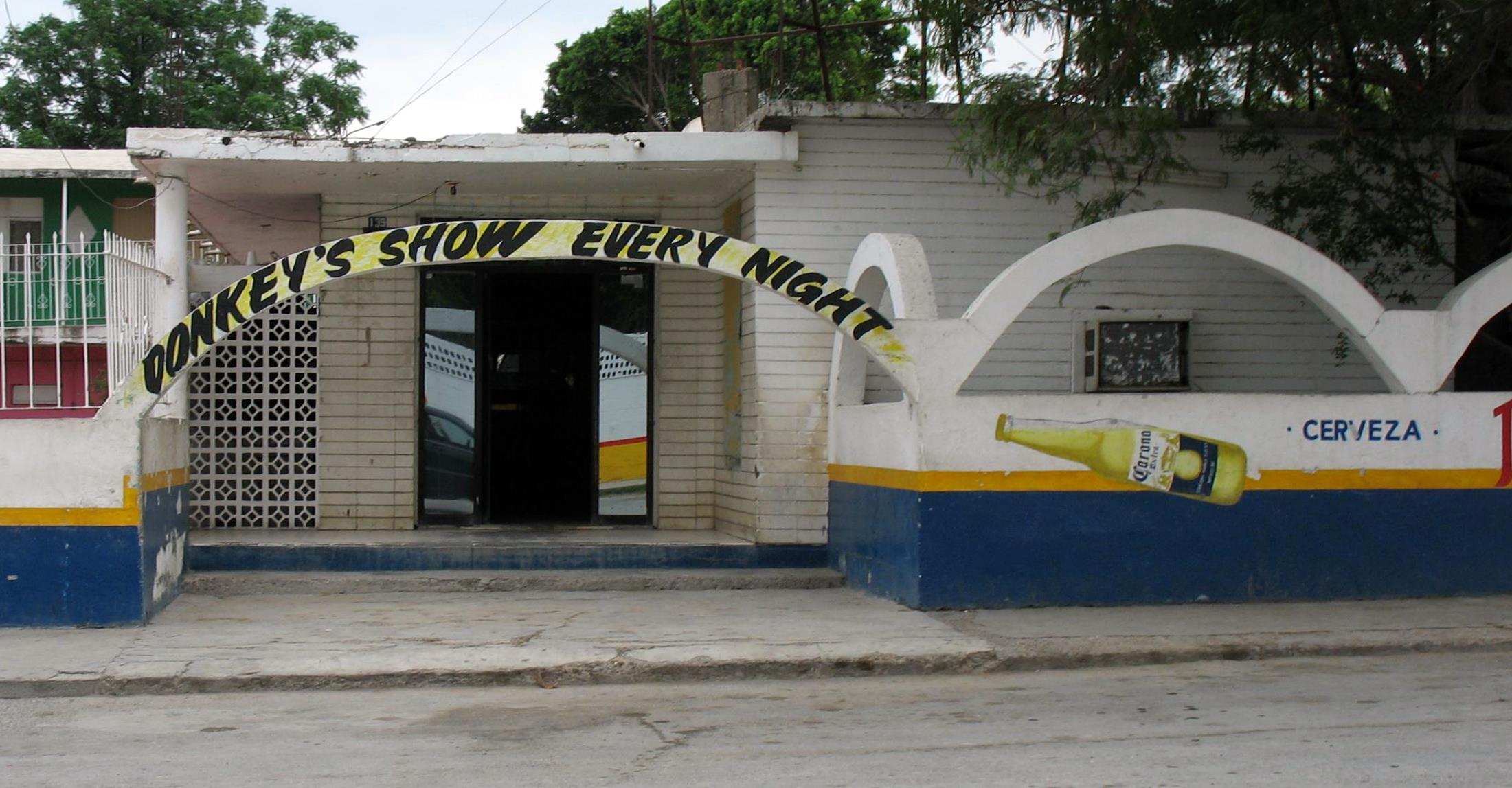 Night club in legal prostitution zone Boy's Town, offering a donkey show. A different photography of the same club was published in the Dallas Observer in May 31, 2001 [1].